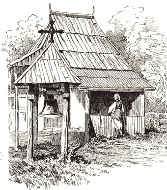 One of many Roman Catholic chapels in Bosnia and Herzegovina, Bosnian kingdom